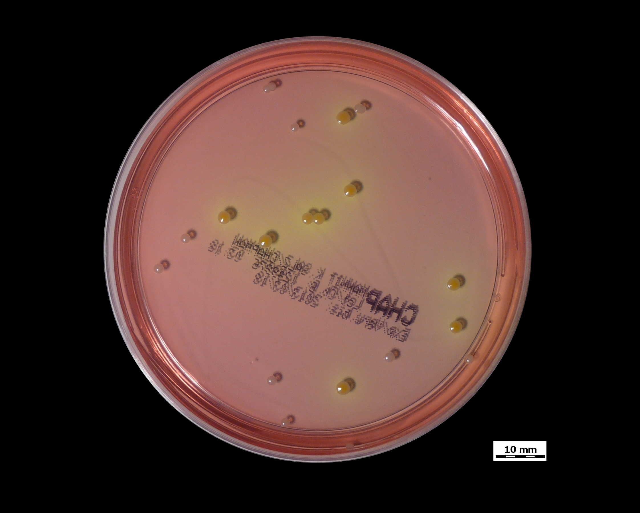 Staphylococcus aureus and Staphylococcus epidermidis on mannitol salt agar. Cultivation 24 hours, 37°C.